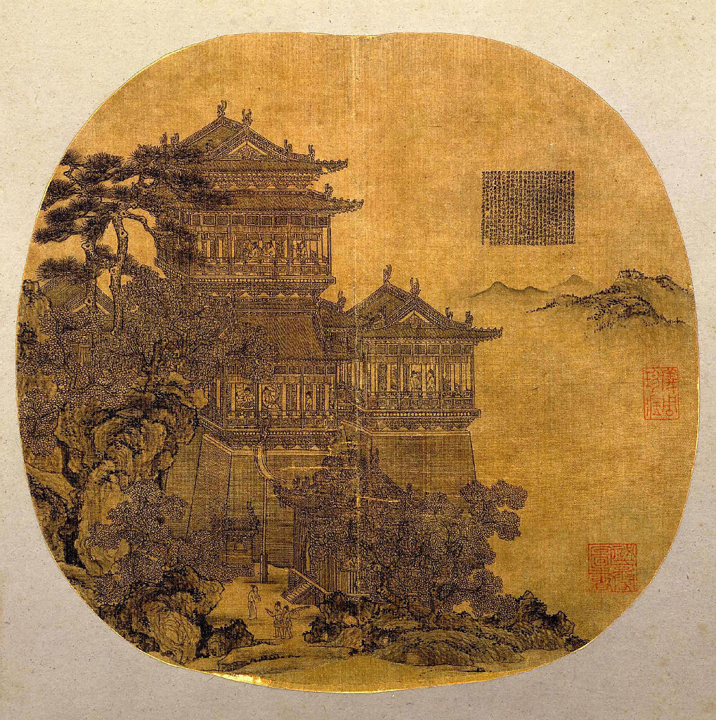 Yueyang Tower (岳阳楼图) Height: 25.2cm Width：25.8cm